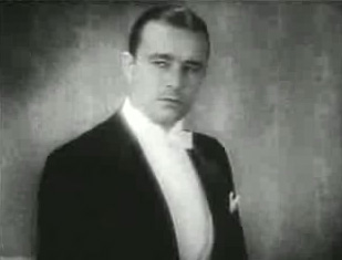 Screenshot of Robert Armstrong from the film The Racketeer